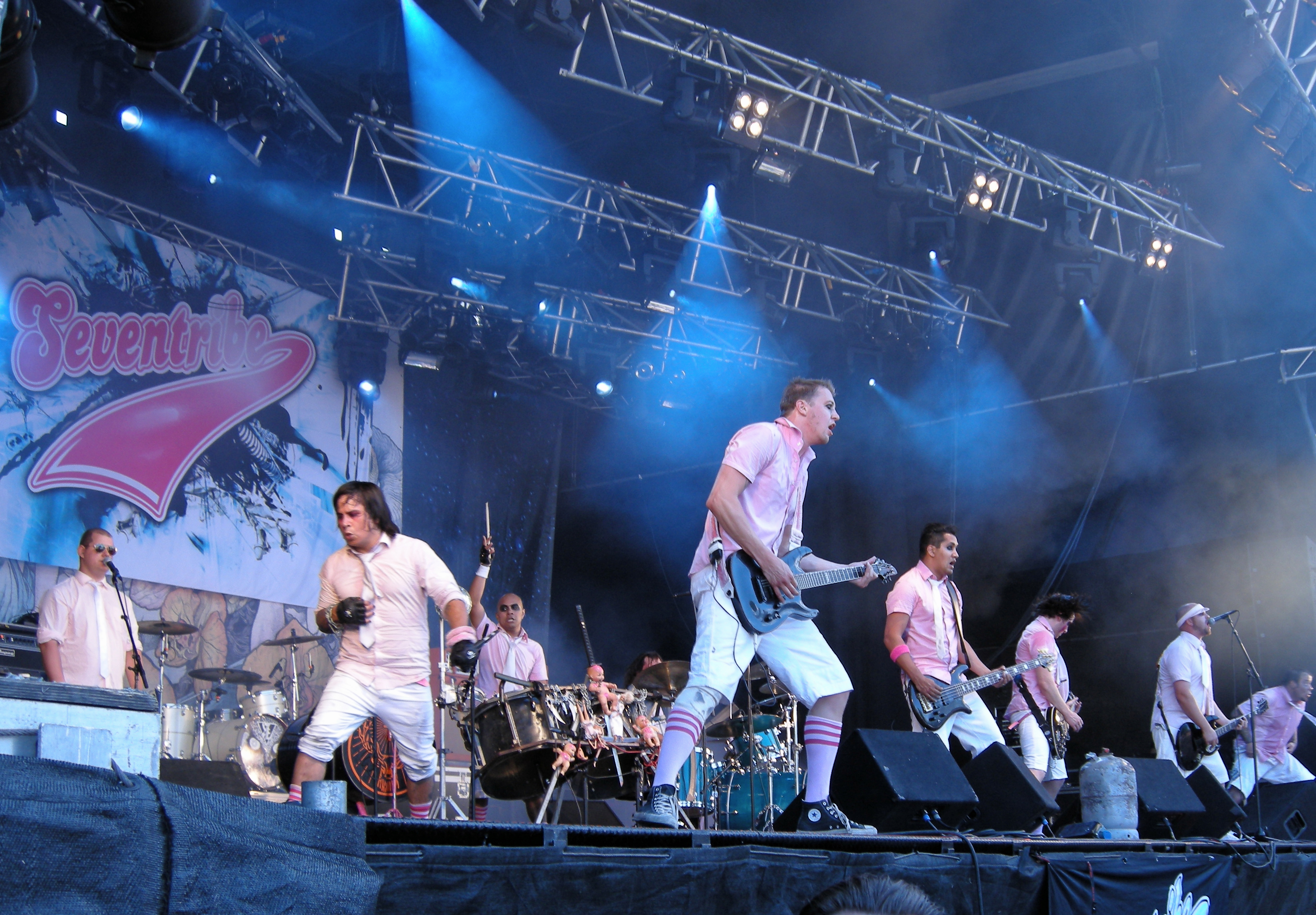 Swedish band Seventribe at Sonisphere Festival, Stockholm, Sweden 2011